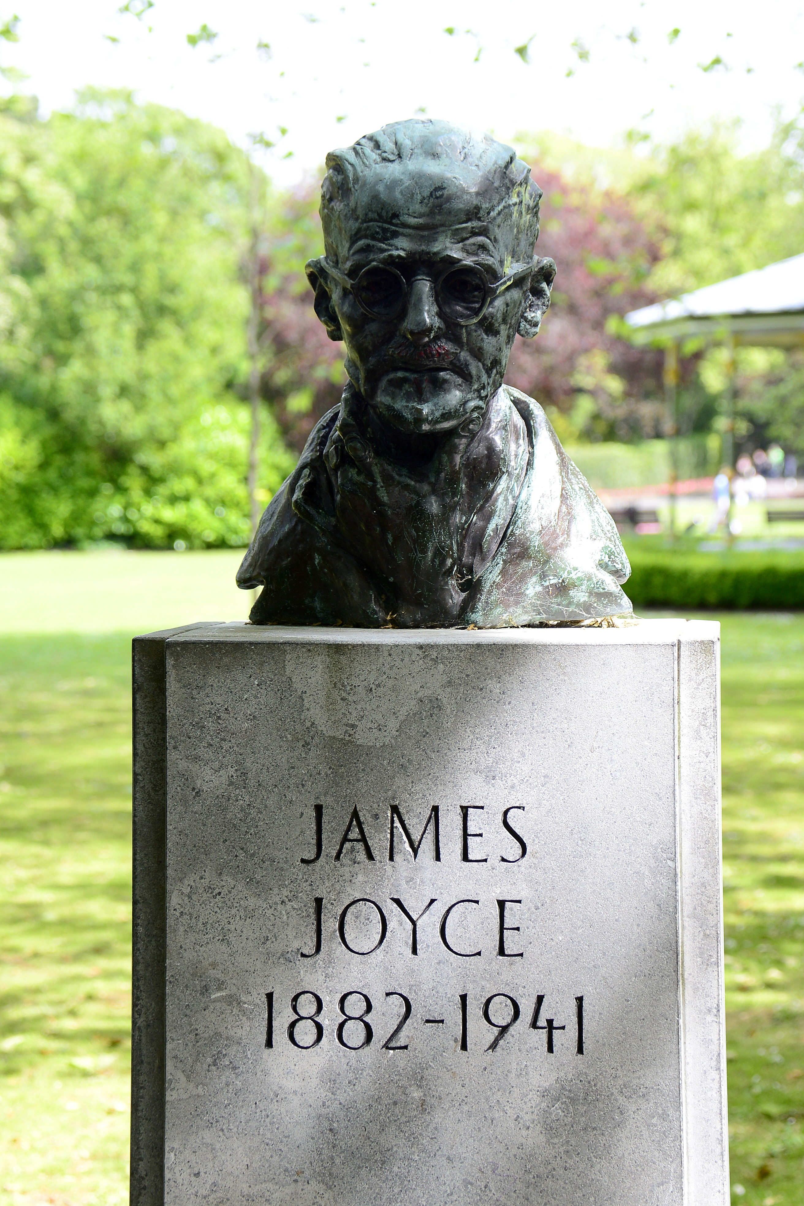 James Joyce's bust at St Stephen's Green in Dublin, Ireland.